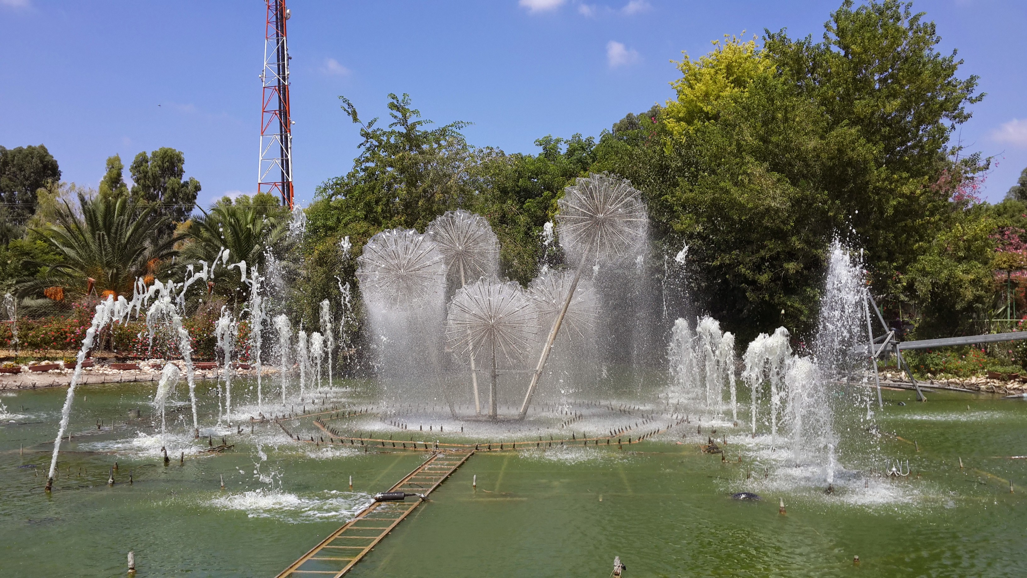 Musical fountain in Utopia park, Israel